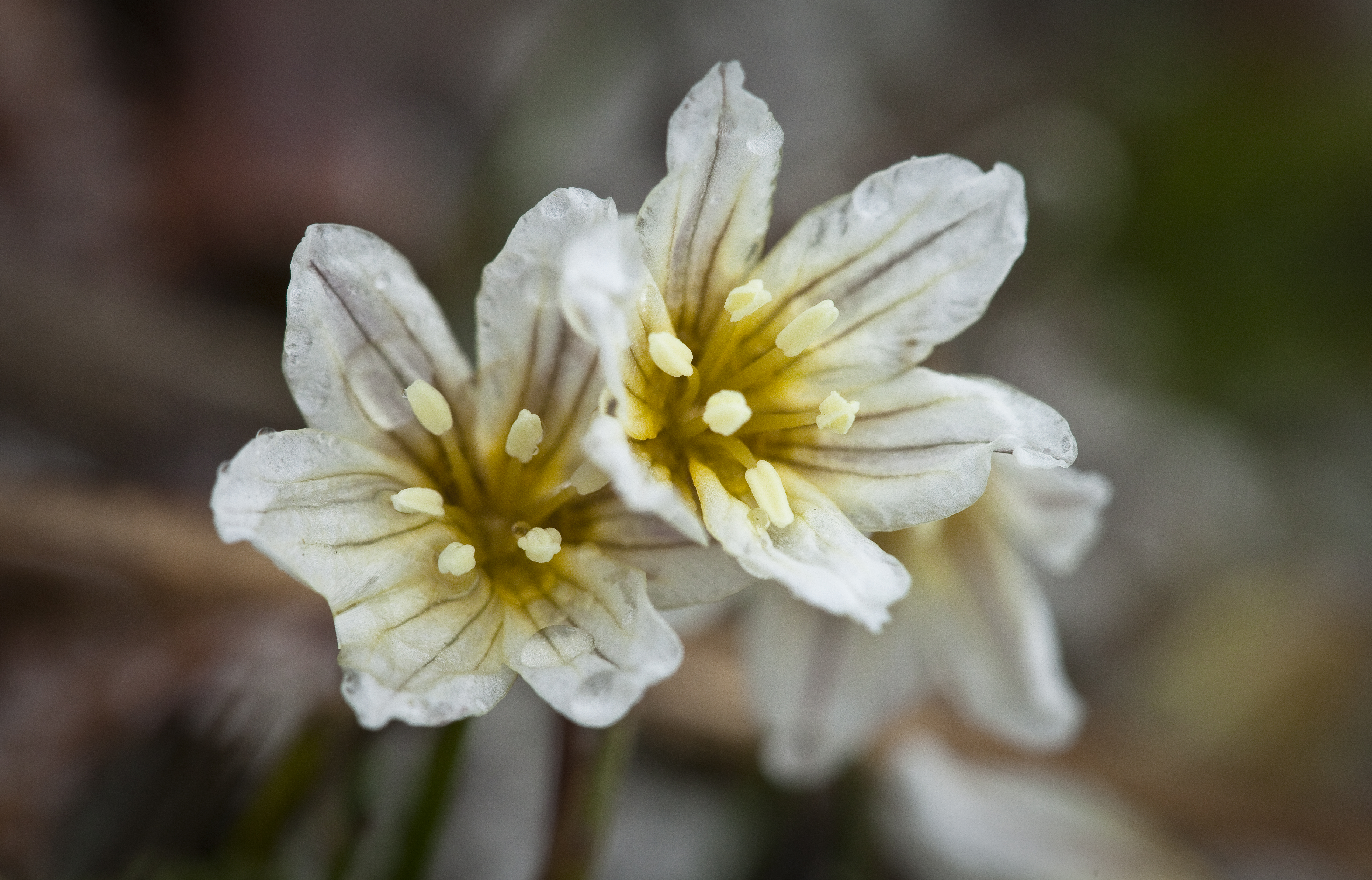 Lloydia serotina, Denali National Park and Preserve, Alaska, USA